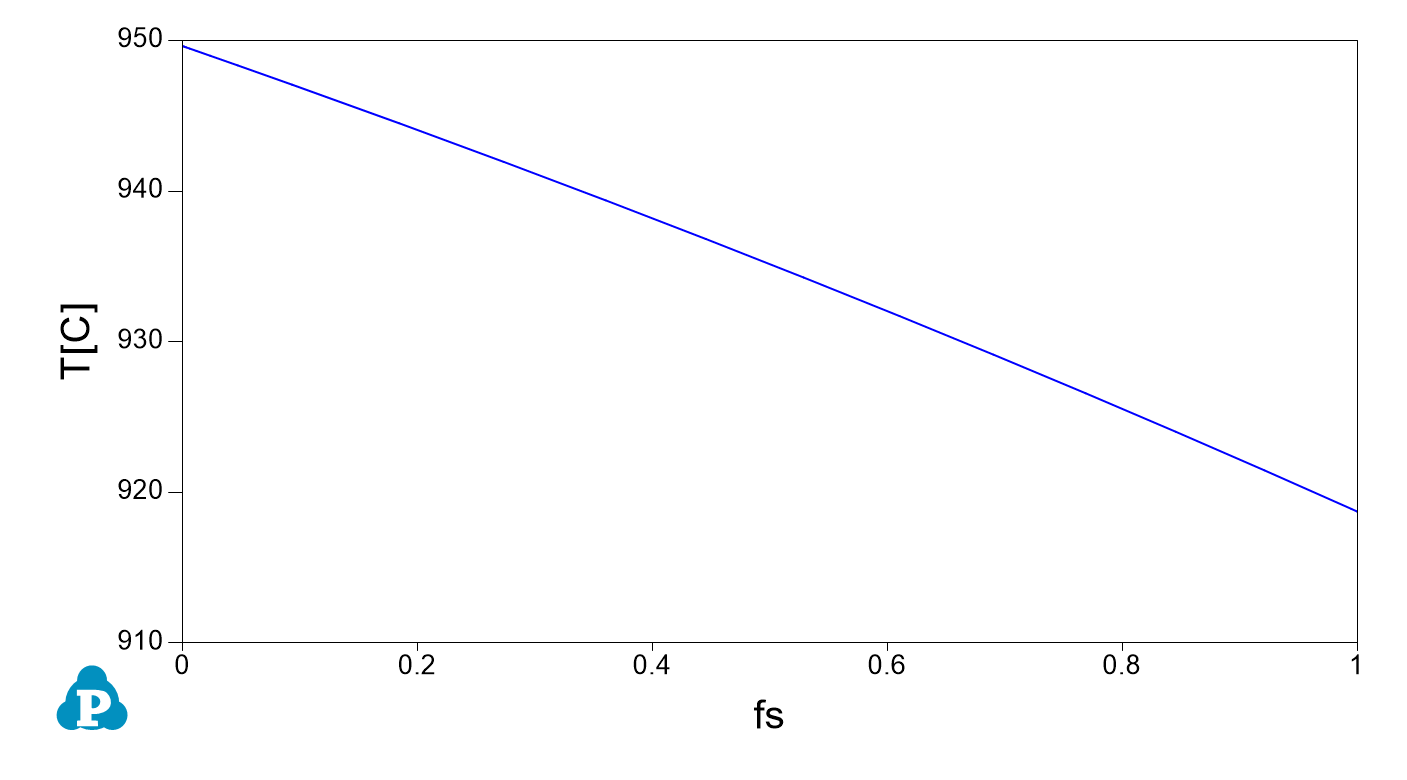 Solidification -. using the lever rule - of a binary Cu Zn alloy, at composition Zn in weight 30% using free version of Computherm Pandat software